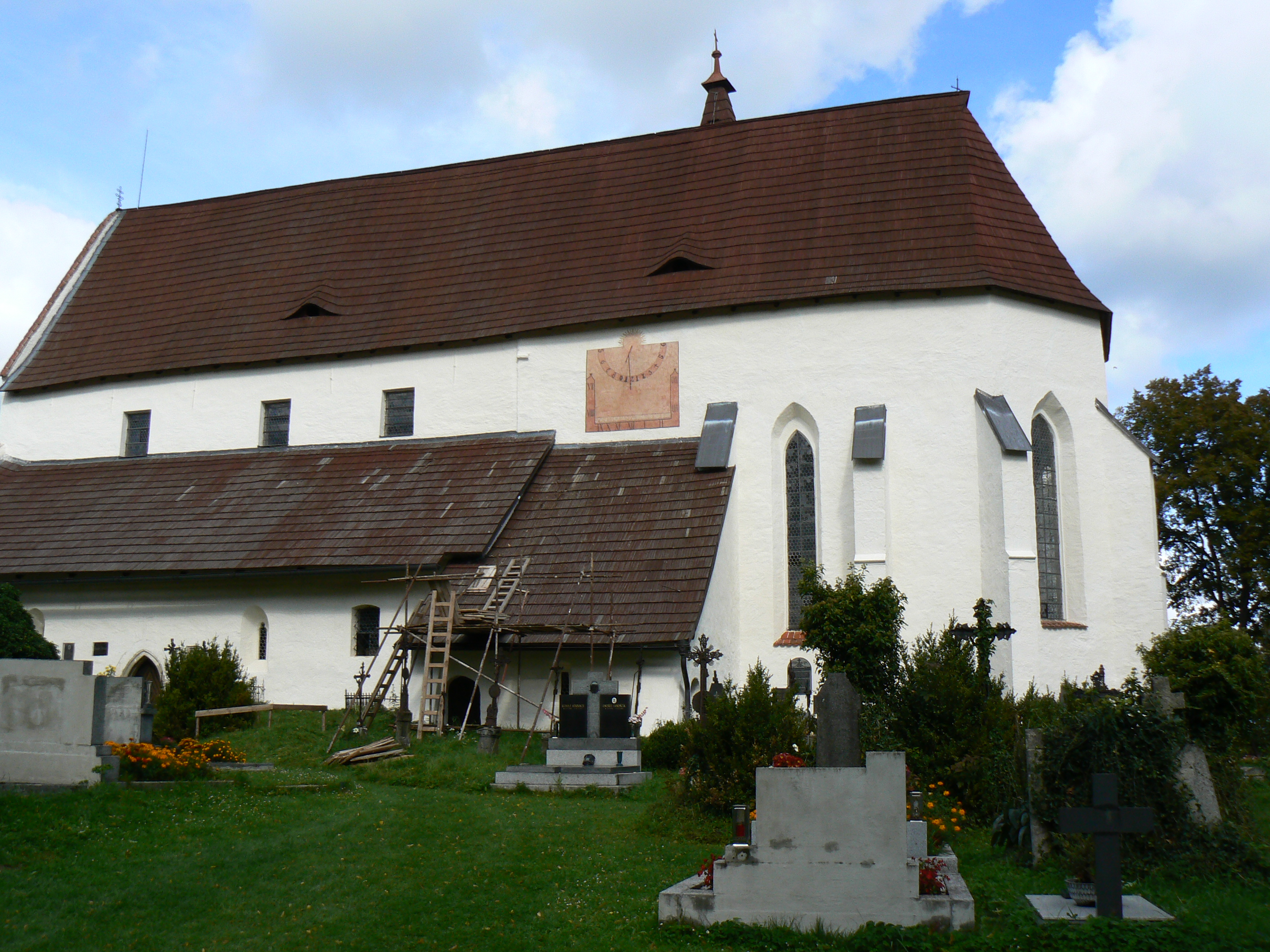 sv. Mikulas (St. Nicolaschurch, Kašperské Hory, Czech Republic